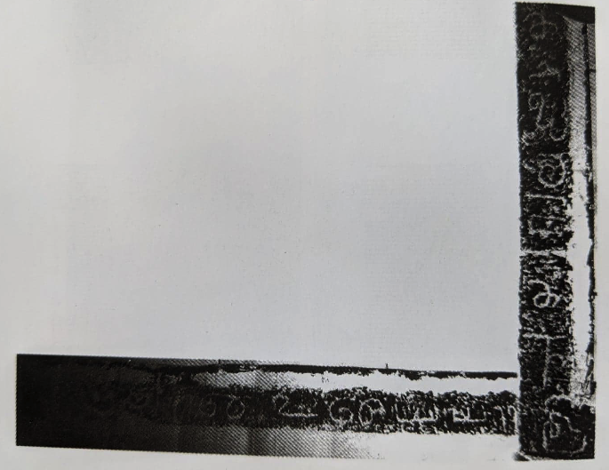 Chola inscriptions polonnaruwa